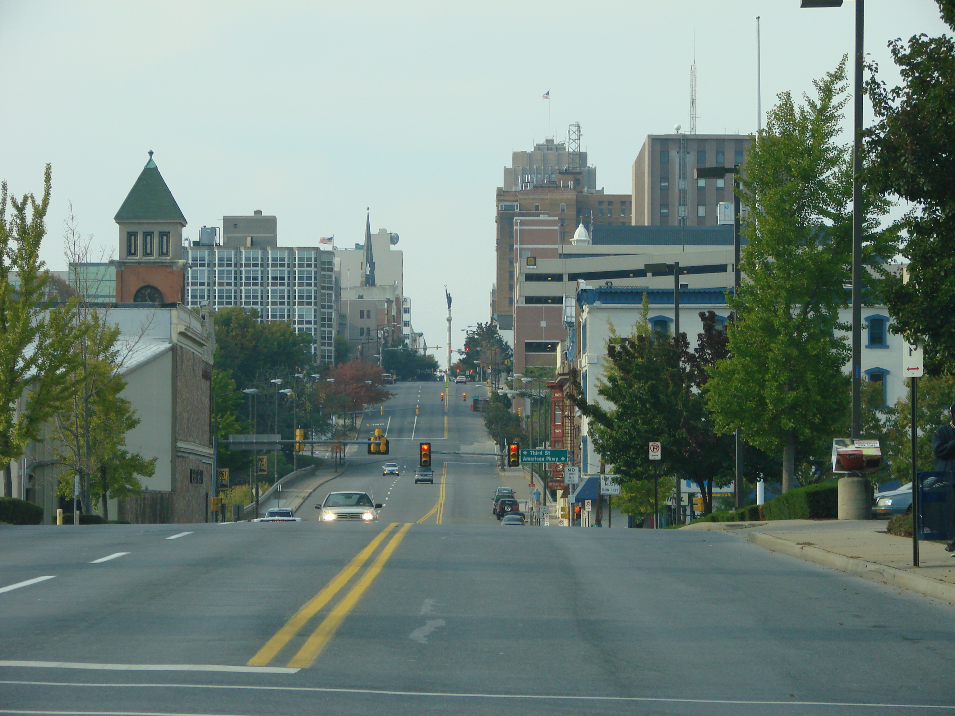 Hamilton Street in Allentown, Pennsylvania, USA